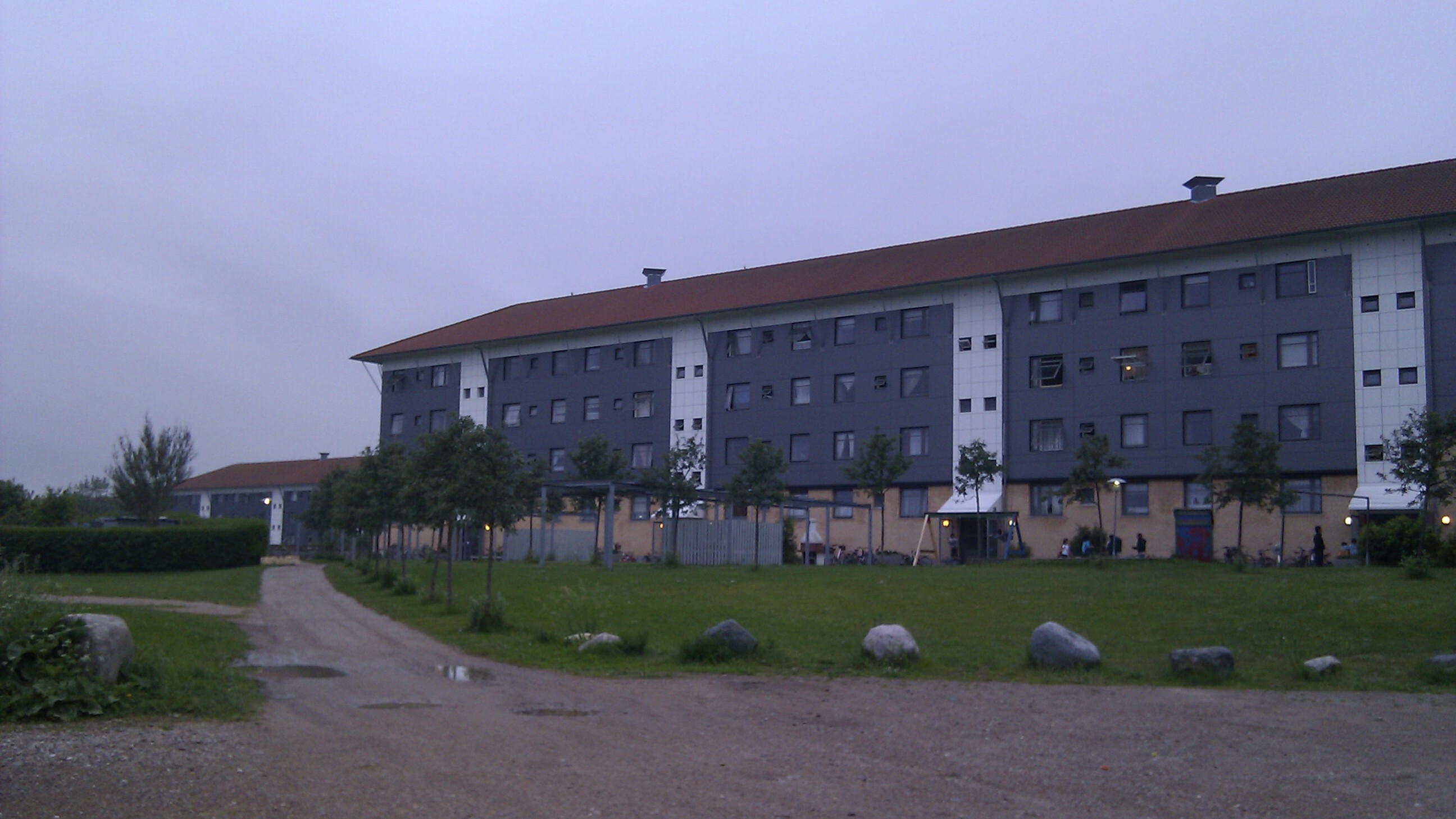 Apartment blocks in the Havevang district in Holbæk, Denmark